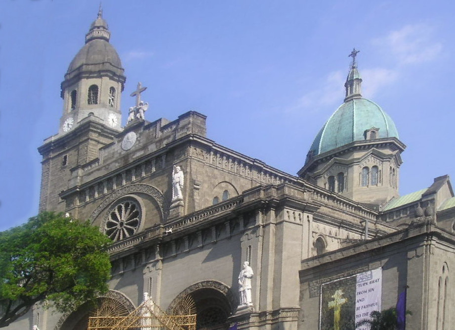 The Cathedral Basilica of La Imaculada Concepcion, more popularly known as the Manila Metropolitan Cathedral, started as a church of light materials built in 1571. This was replaced by another structure that was probably built in 1581 and later declared as a cathedral. The church was damaged by a typhoon in 1582, repaired, razed by a fire in 1583, replaced by a stone structure in 1592, and destroyed during the earthquake of 1600 before it was finished. Over this, another church was built in 1614 that was again destroyed during an earthquake in 1645, replaced by a magnificent structure that was built in 1653, and destroyed again in the earthquake of 1863. Another cathedral was yet again built over the ruins in 1871 that was again damaged during the 1880 earthquake, destroyed during the Battle of Manila in 1945, and rebuilt in 1954. Related article at . Olympus Camedia (NRFC Meeting, November 2005). Slightly improved with Picasa.